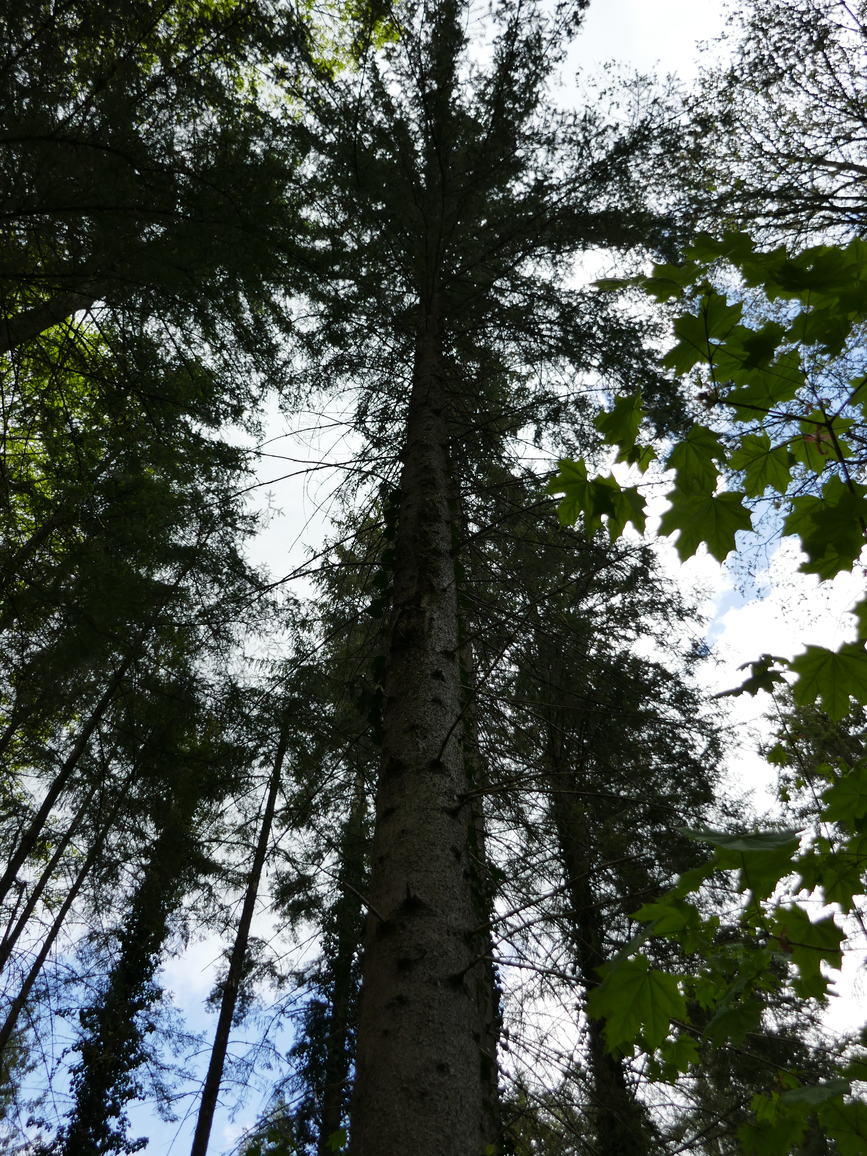 Picea glehnii in the Forstlicher Versuchsgarten Grafrath (Germany)